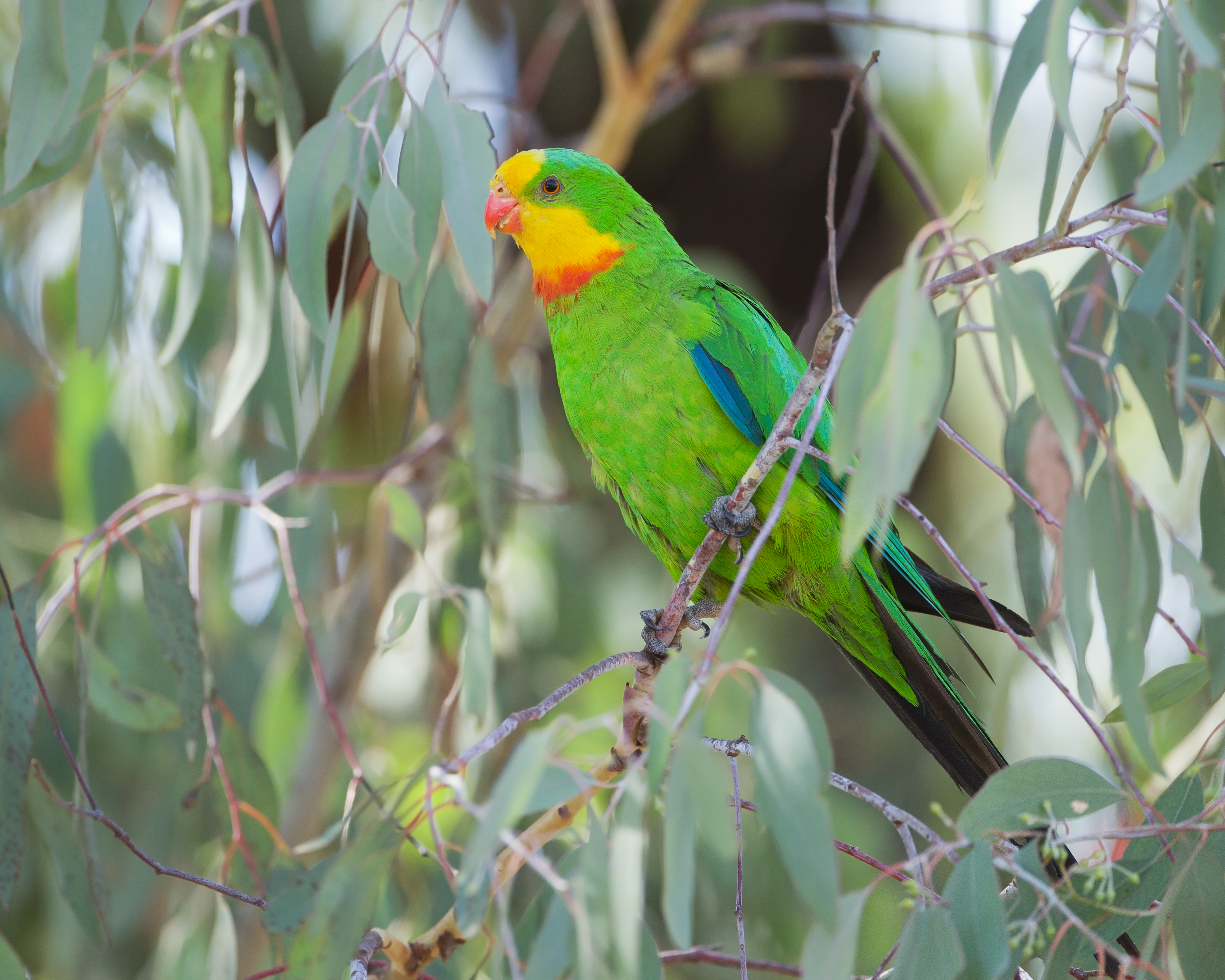 Superb Parrot (Polytelis swainsonii'), Canberra, Australian Capital Territory, Australia